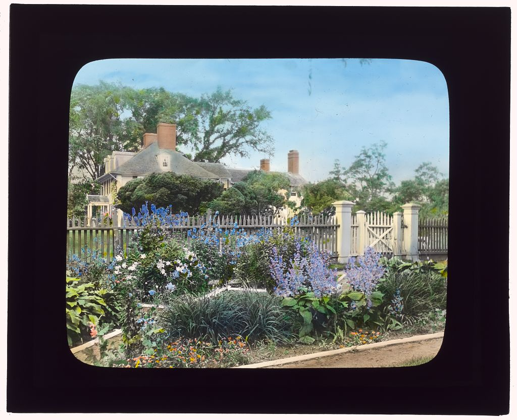 Johnston, Frances Benjamin,, 1864-1952,, photographer. ["Sylvestor Manor," Cornelia Horsford house, Shelter Island, New York. Flower garden] [ca. 1915] 1 photograph : glass lantern slide, hand-colored ; 3.25 x 4 in. Notes: Site History. House Architecture: Built 1735, the second on the site. Associated Name: Cornelia Horsford and others. Today: House extant as the private residence of Cornelia Horsford descendents. On slide (handwritten): "Sylvestor Manor, Shelter Island." Also, blind embossed stamp: "Frances B. Johnston, New York." Photographed when Frances Benjamin Johnston and Mattie Edwards Hewitt worked together. Title, date, and subject information provided by Sam Watters, 2011. Forms part of: Garden and historic house lecture series in the Frances Benjamin Johnston Collection (Library of Congress). Subjects: Gardens--New York (State)--Shelter Island--1910-1920. Flowers--New York (State)--Shelter Island--1910-1920. Fences--New York (State)--Shelter Island--1910-1920. Format: Lantern slides--Hand-colored--1910-1920. Repository: Library of Congress, Prints and Photographs Division, Washington, D.C. 20540 USA, Higher resolution image is available (Persistent URL): Call Number: LC-J717-X100- 47